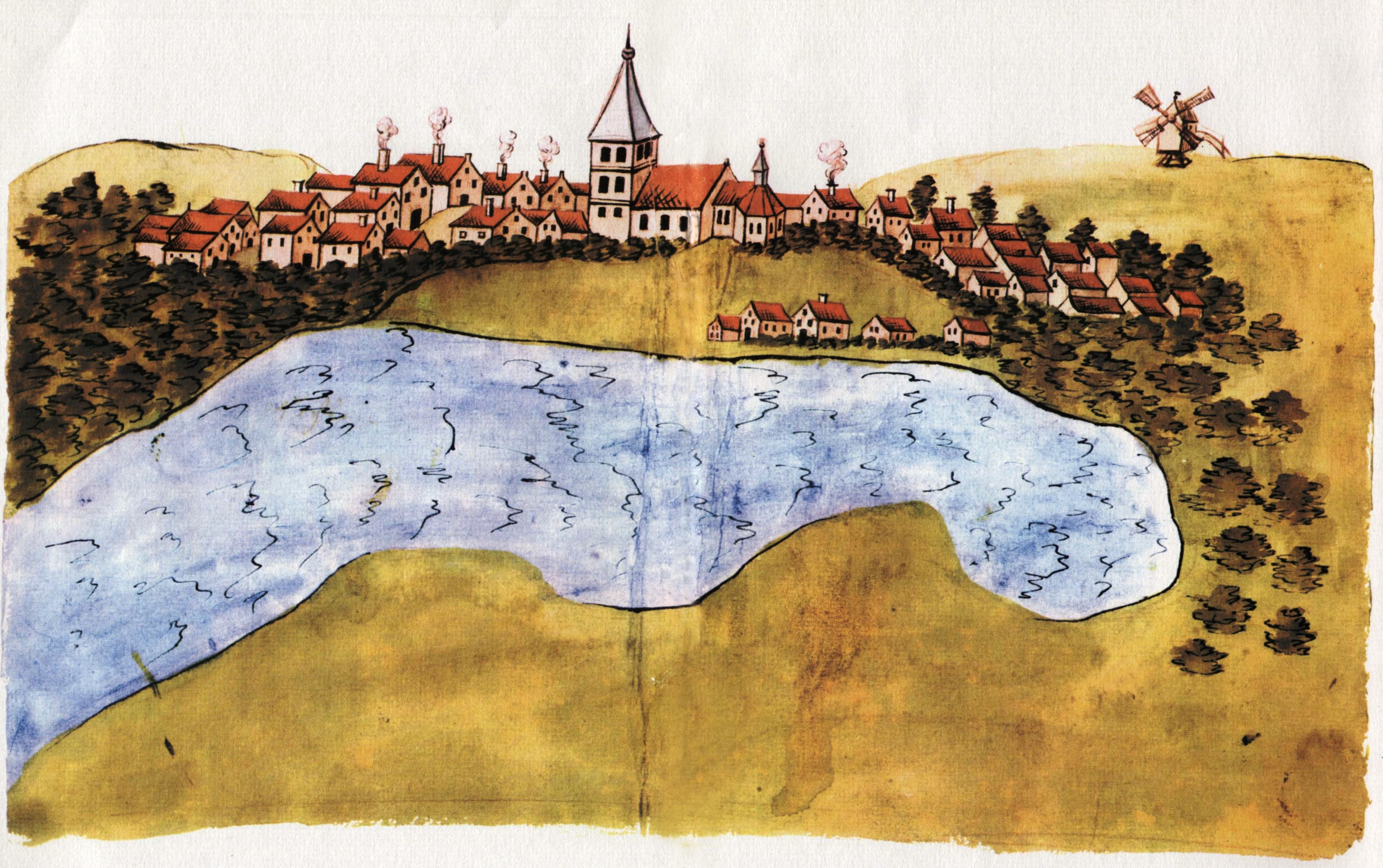 Cityview of Richtenberg from the "Stralsunder Bilderhandschrift"